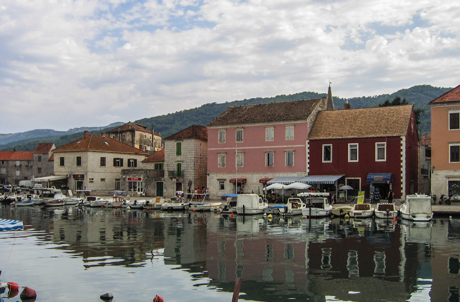 View of Stari Grad, Hvar